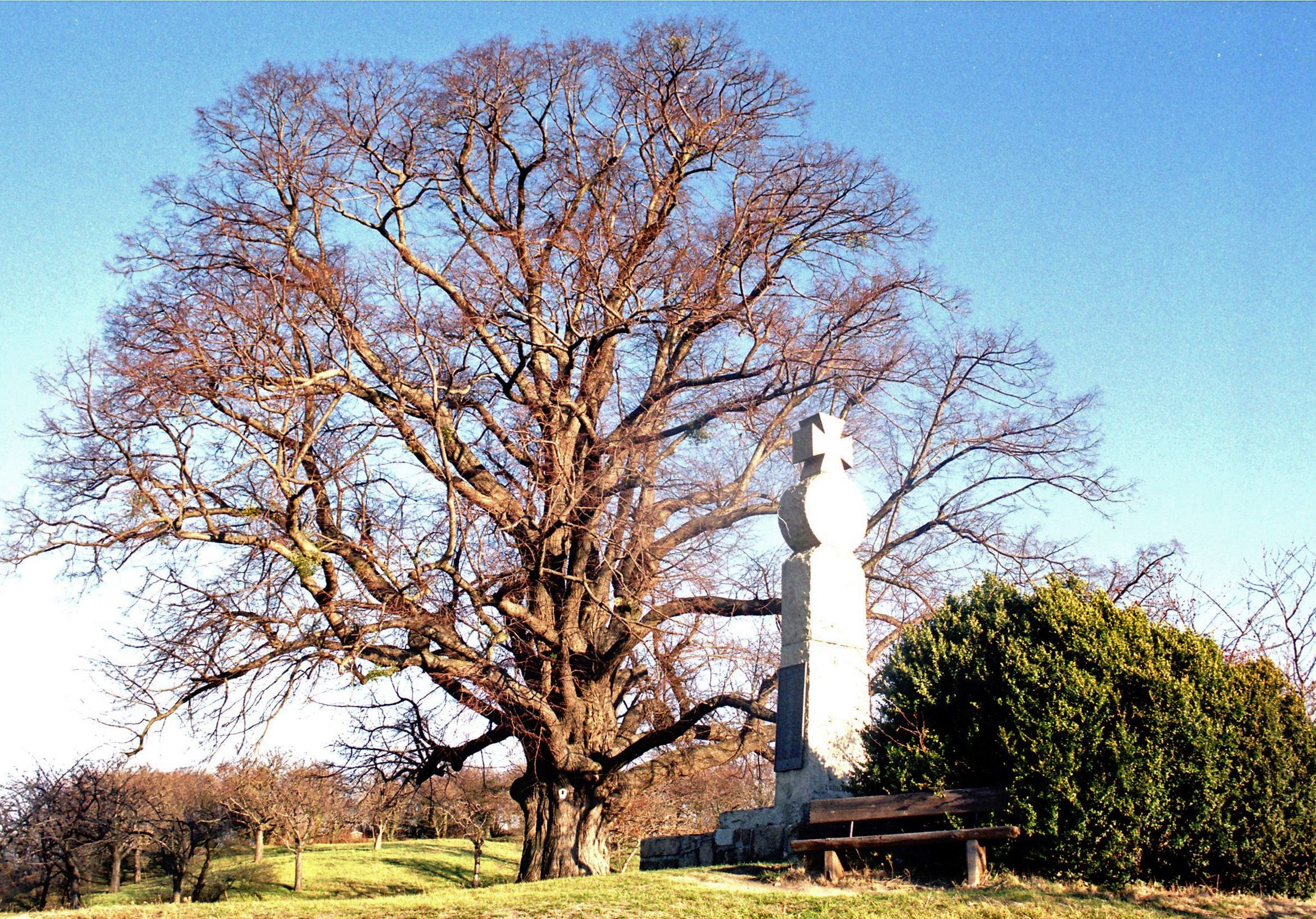 Stapelburg (Nordharz), lime and memorial on the Burgberg